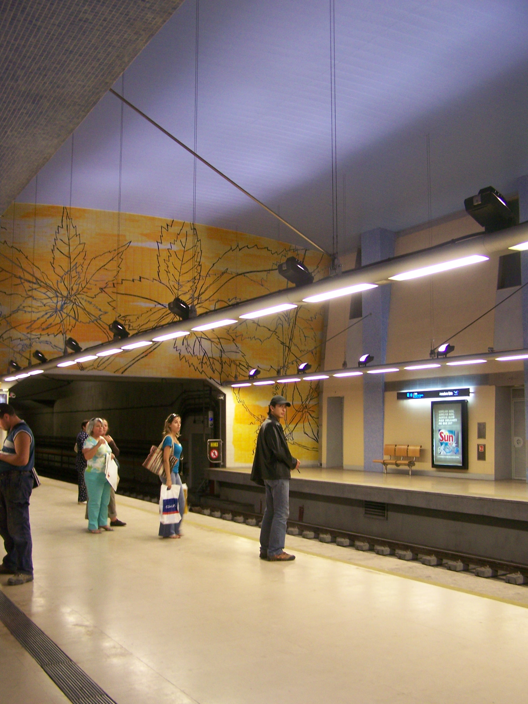 The Lisbon underground station Amadora Este, blue line